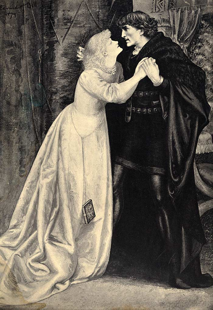 Black and white lithographic print of a painting by Edward H. Bell of Henry Irving and Ellen Terry in the nunnery scene from William Shakespeare's Hamlet